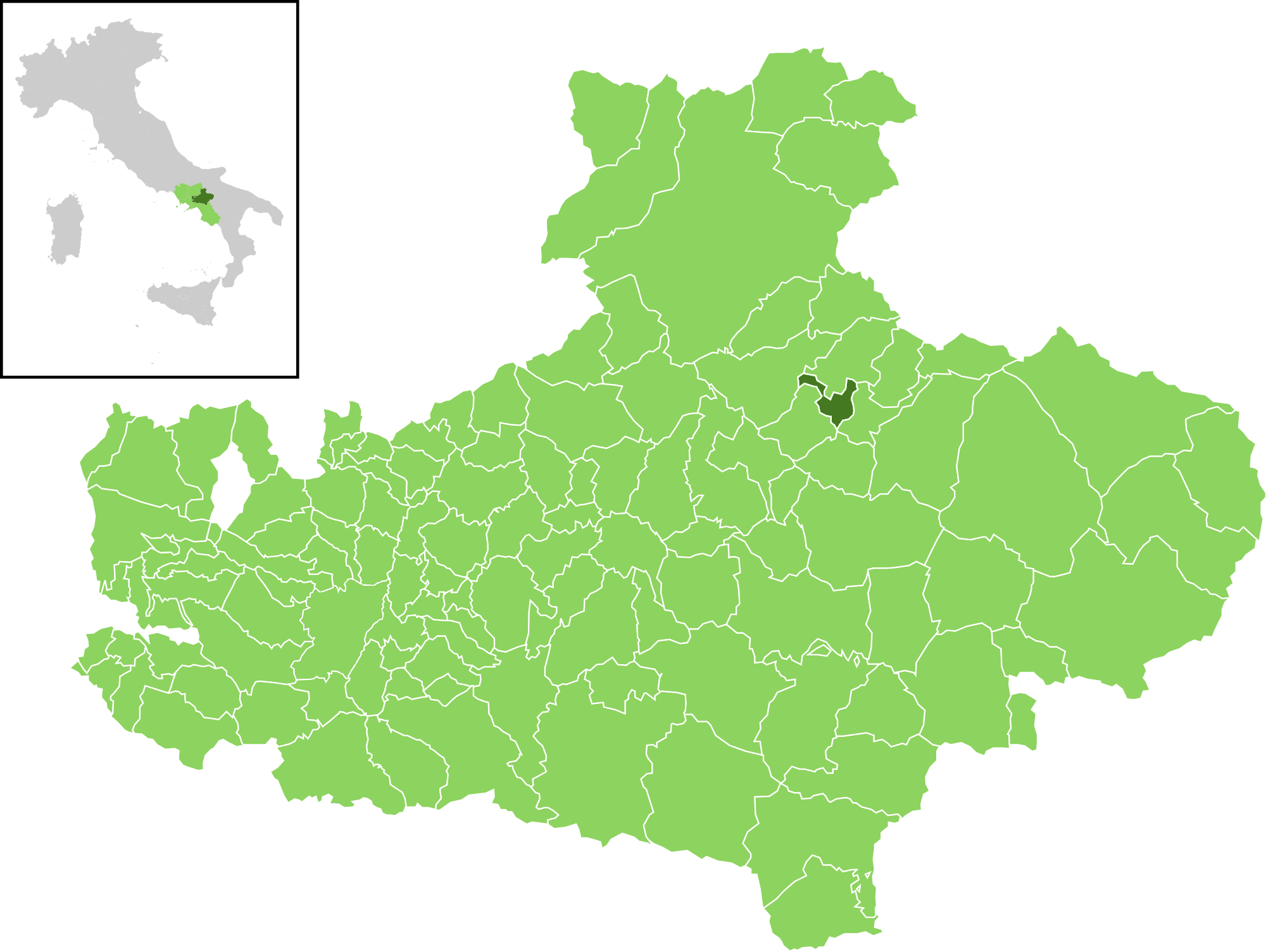 Position of the municipality of San Nicola Baronia in the Province of Avellino.